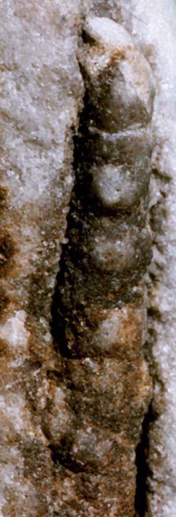 Detail of the holotype of the alleged Lower Cambrian worm Gabavermis annulatus (Troppenz, 1989), interpreted as partial spreite of the trace fossil Diplocraterion cf. parallelum by other paleontologists. The specimen is preserved in an erratic cobble of Lower Cambrian sandstone found at the North Sea Coast of Danmark in the parish of Hjerpsted.